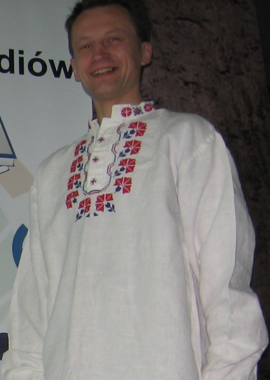 Dariusz Biegacz on the Wikimedia Poland conference in Bialowieza (2007), weared in typical Belarussian shirt